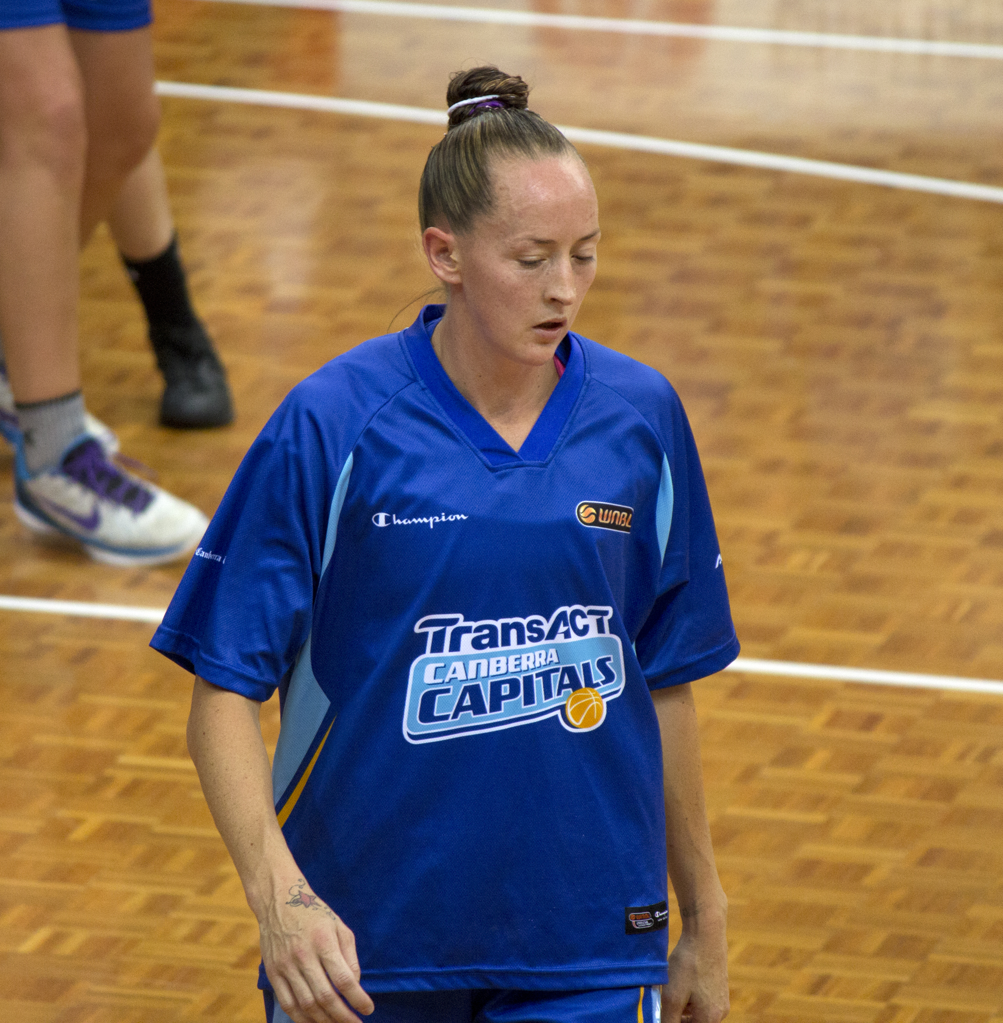 Michelle Cosier at the Canberra Capitals vs Logan Thunder held at AIS Arena at the Australian Institute of Sport